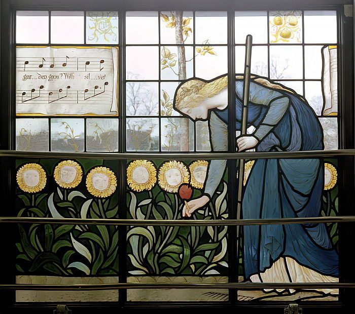 Stained-glass window in Pownall Hall Farm, Wilmslow, Cheshire. It was produced by Shrigley and Hunt from a design by E H Jewitt.